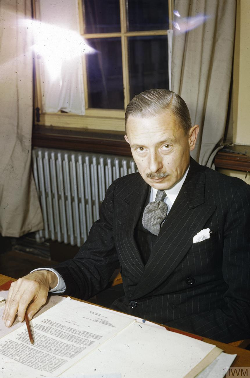 The Inter-allied Control Commission in Germany, 1944 The newly-appointed political adviser and Deputy Commissioner to the Inter-Allied Control Commission in Germany (British Element), Ivone Kirkpatrick, CMG, at his desk in London.